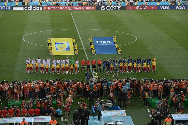 Germany and Argentina on the field during the 2014 FIFA World Cup Final